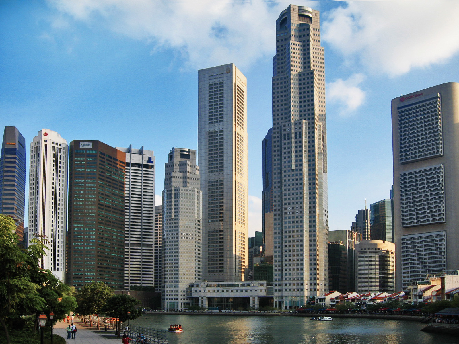 Skyline in downtown Singapore (enhanced from Terence's collection)